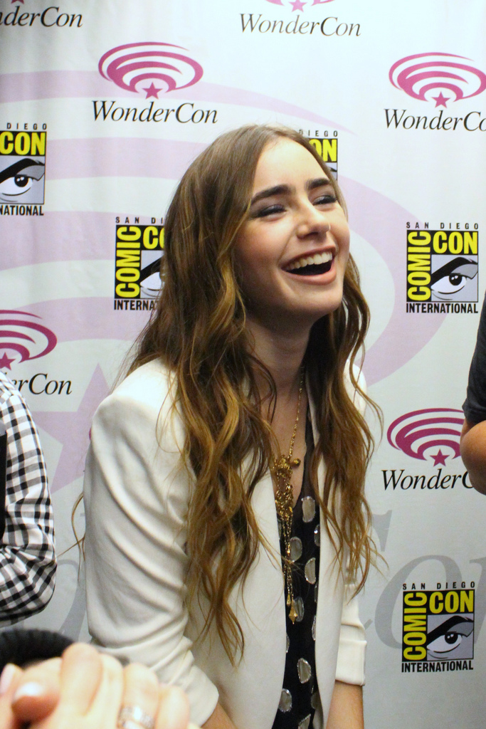 Lily Collins at WonderCon 2011